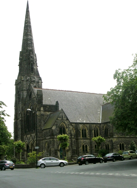 Trinity Methodist Church - Trinity Road